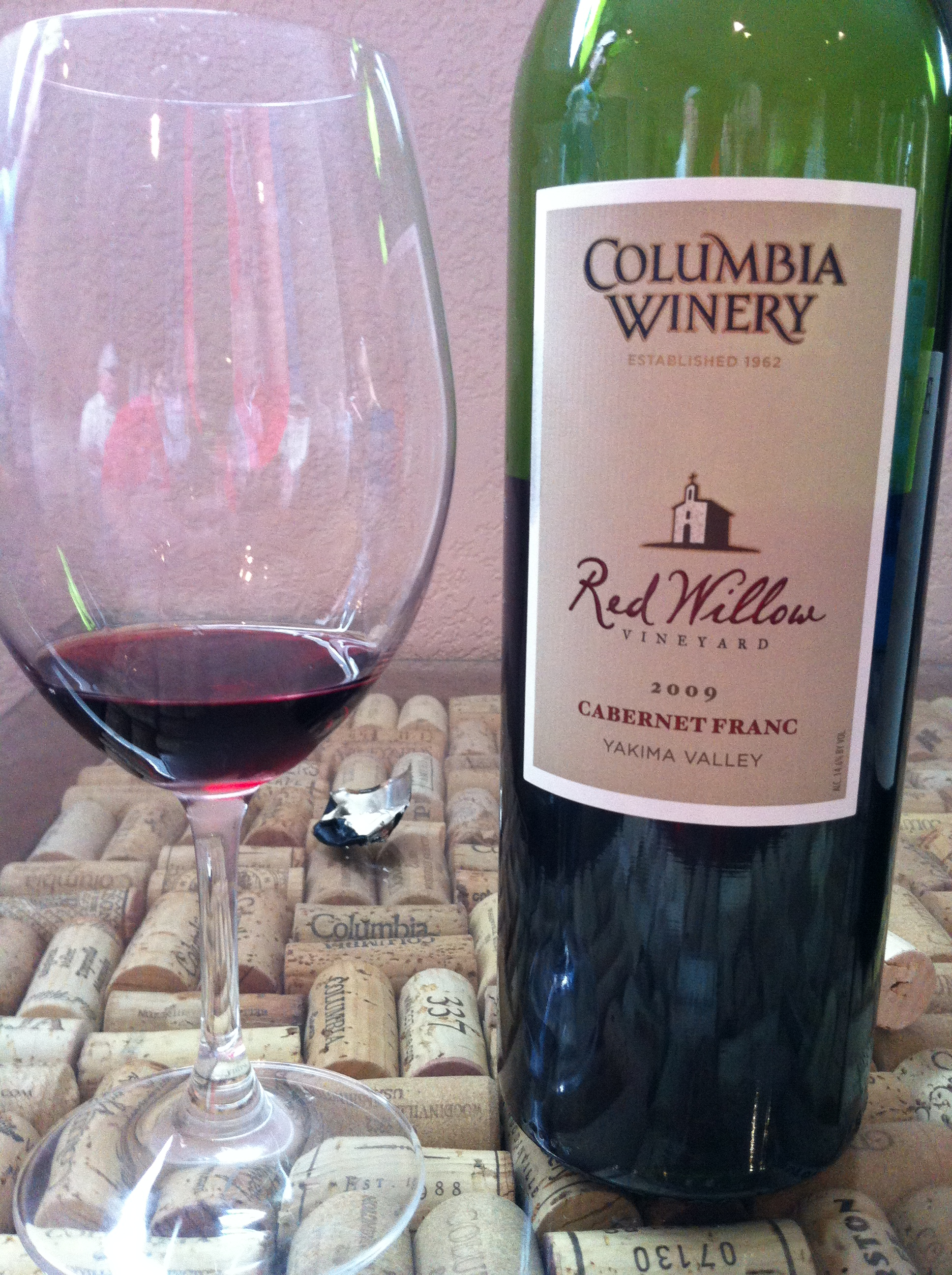 Cab Franc made by Washington winery Columbia from grapes harvested from the Yakima Valley AVA vineyard of Red Willow